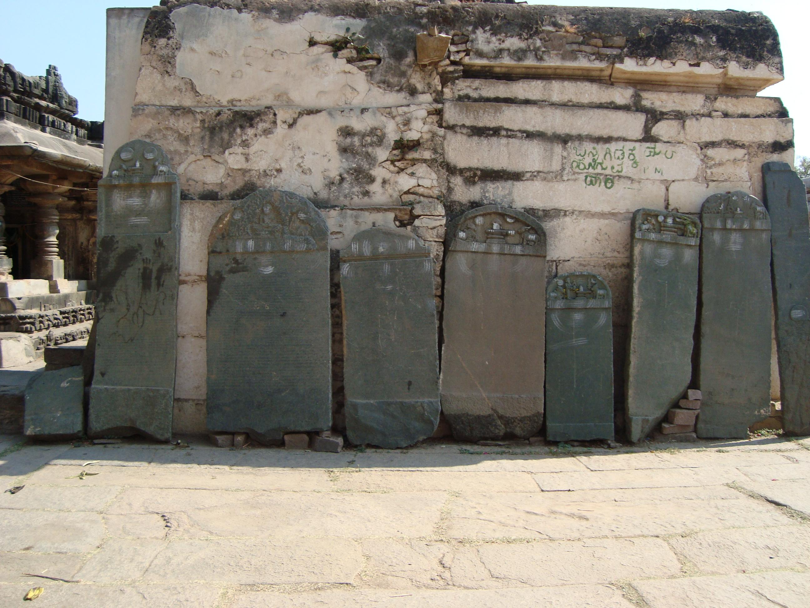 Lakshmeshwara Someshwara temple, Kannada inscriptions Author and source : Manjunath Doddamani, Gajendragad/Hubli, Karnataka(North), India.